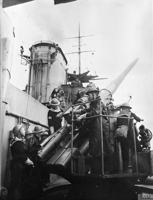 Gun crew with QF 4.7 inch Mk VIII anti-aircraft gun on British battleship HMS Rodney.